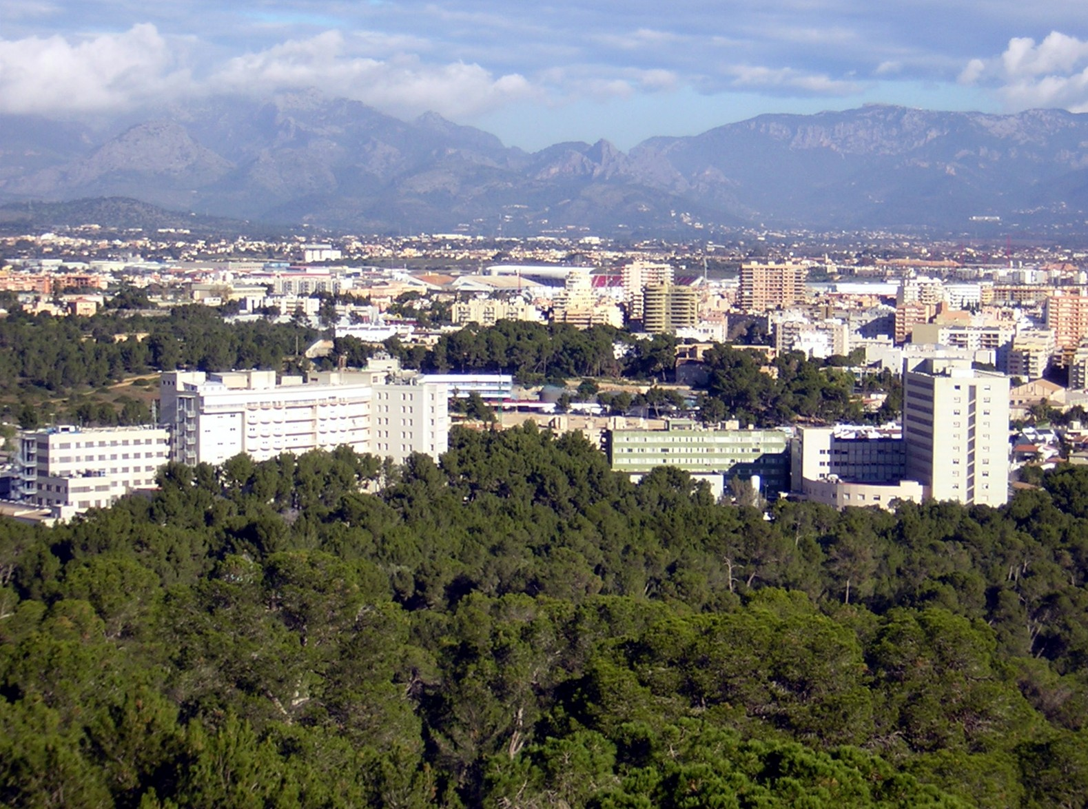 Son Dureta Universitary Hospital